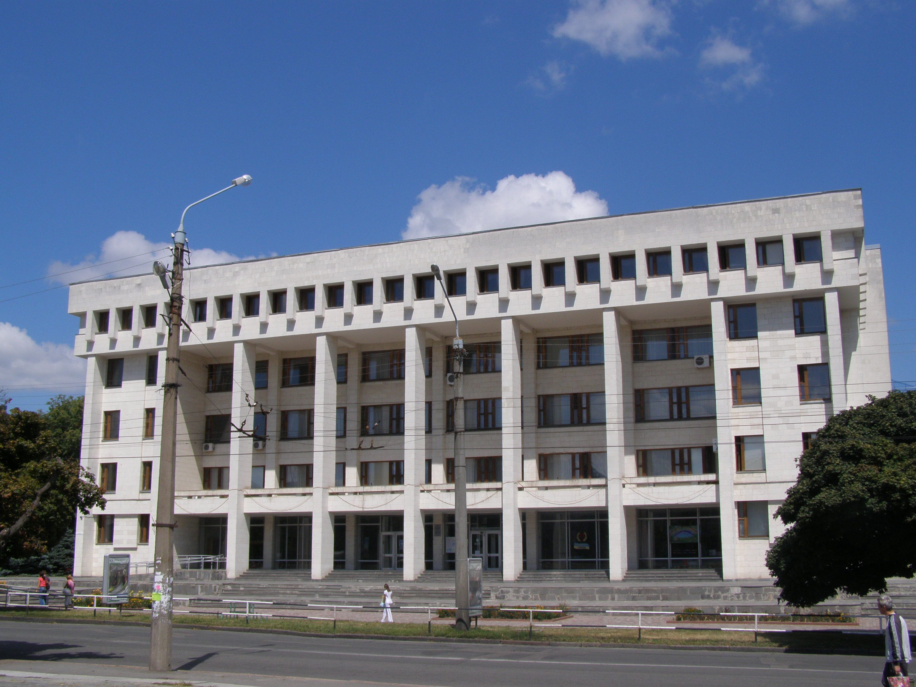 Poltava Regional Library, Ukraine